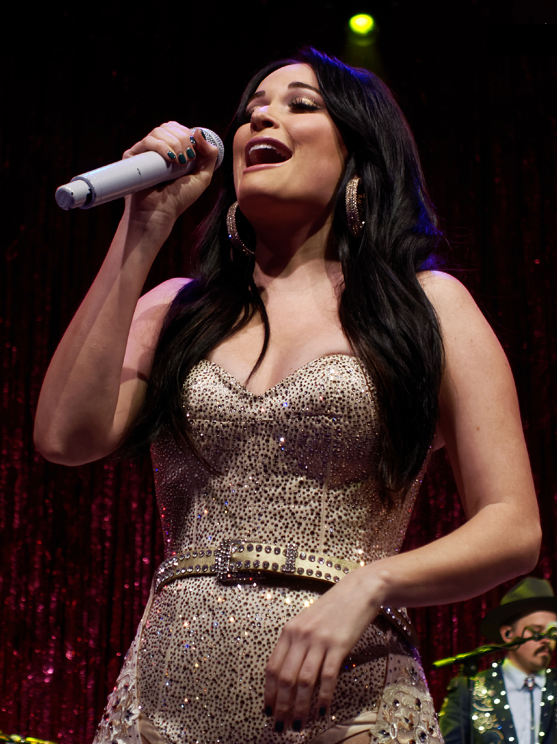 Kacey Musgraves at The Greek Theatre